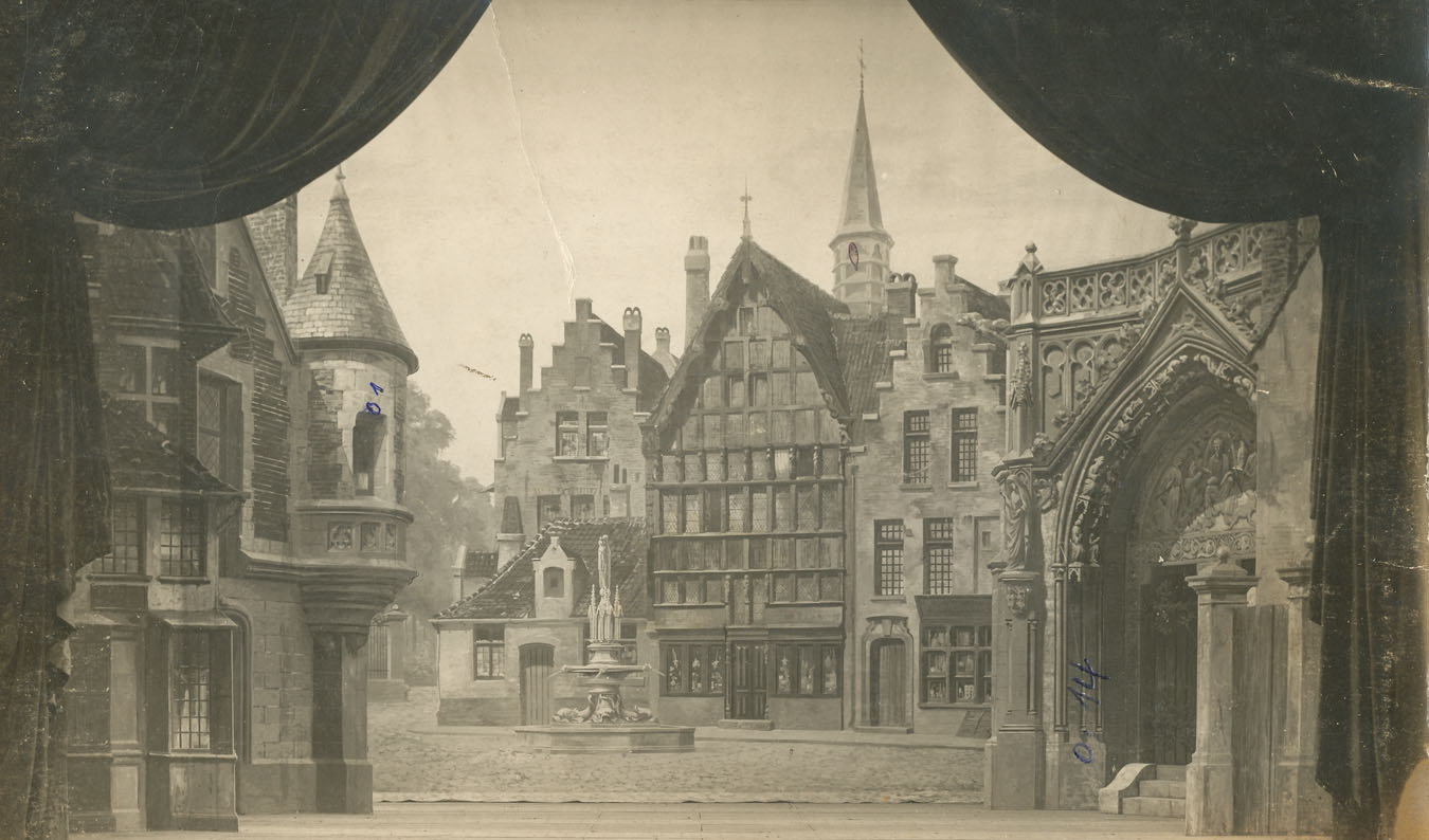 Original set designed and painted in 1914 for the Stadsschouwburg of KOrtrijk by Albert Dubosq (1863-1940).